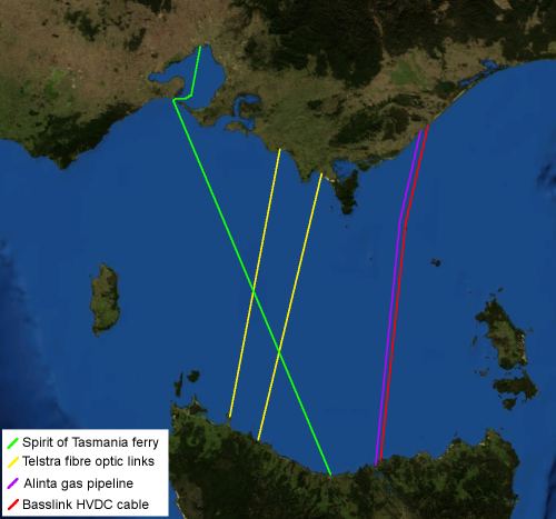 Map of Bass Strait including electrical, gas, communications and transport infrastructure. Background imagery derived from NASA World Wind.